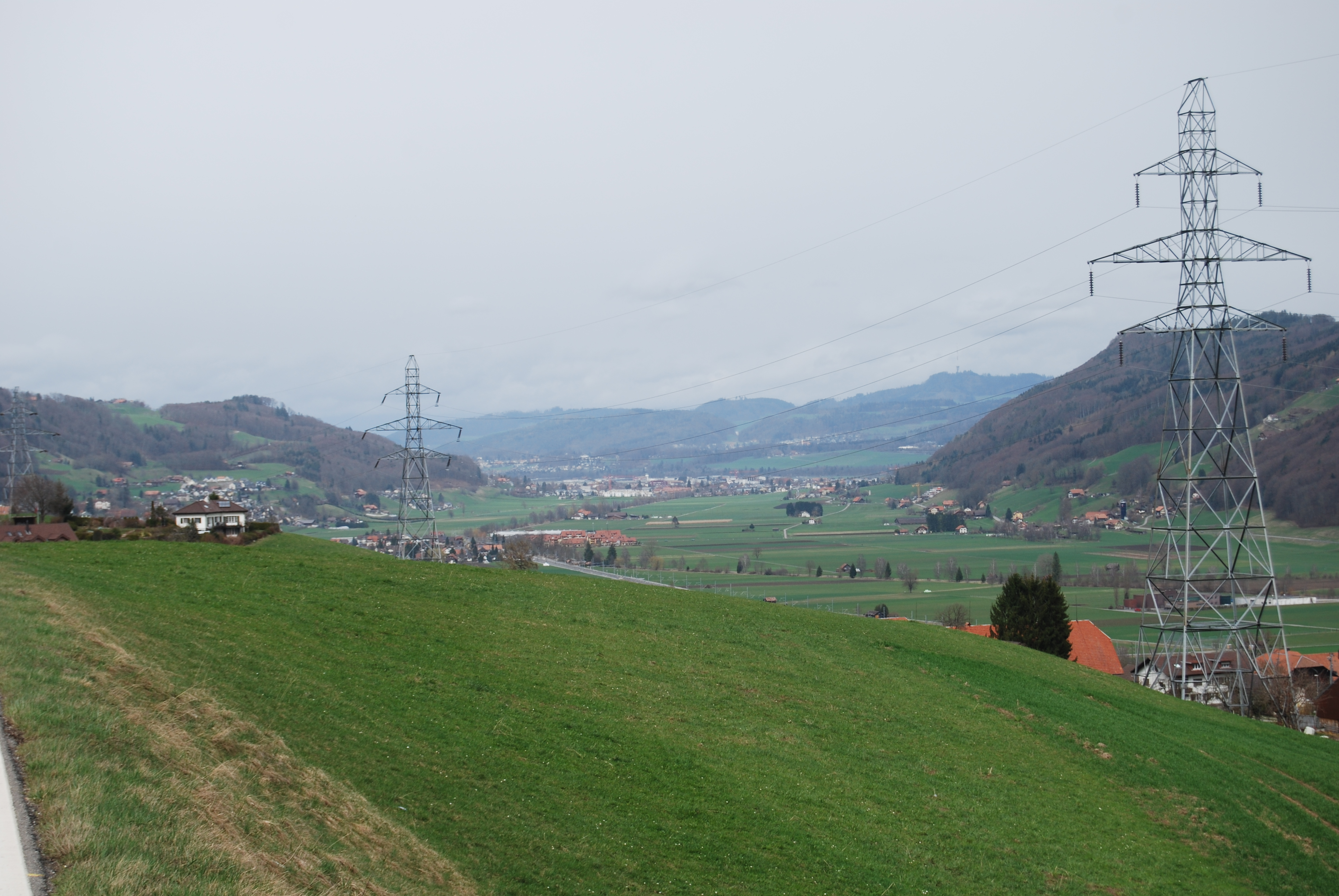 View from Rümligen to the Gürbe Valley with Kaufdorf, Gelterfingen and Toffen, canton of Bern, Switzerland